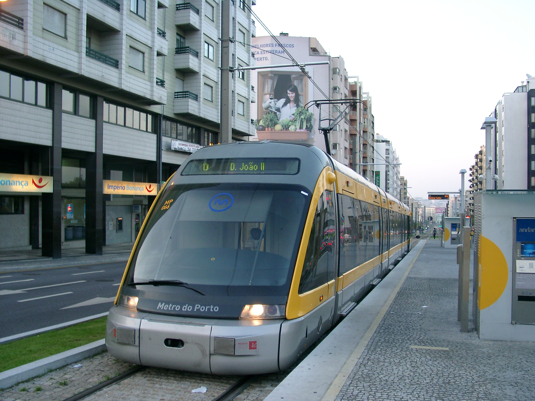 Metro do Porto. Estação de D. João II